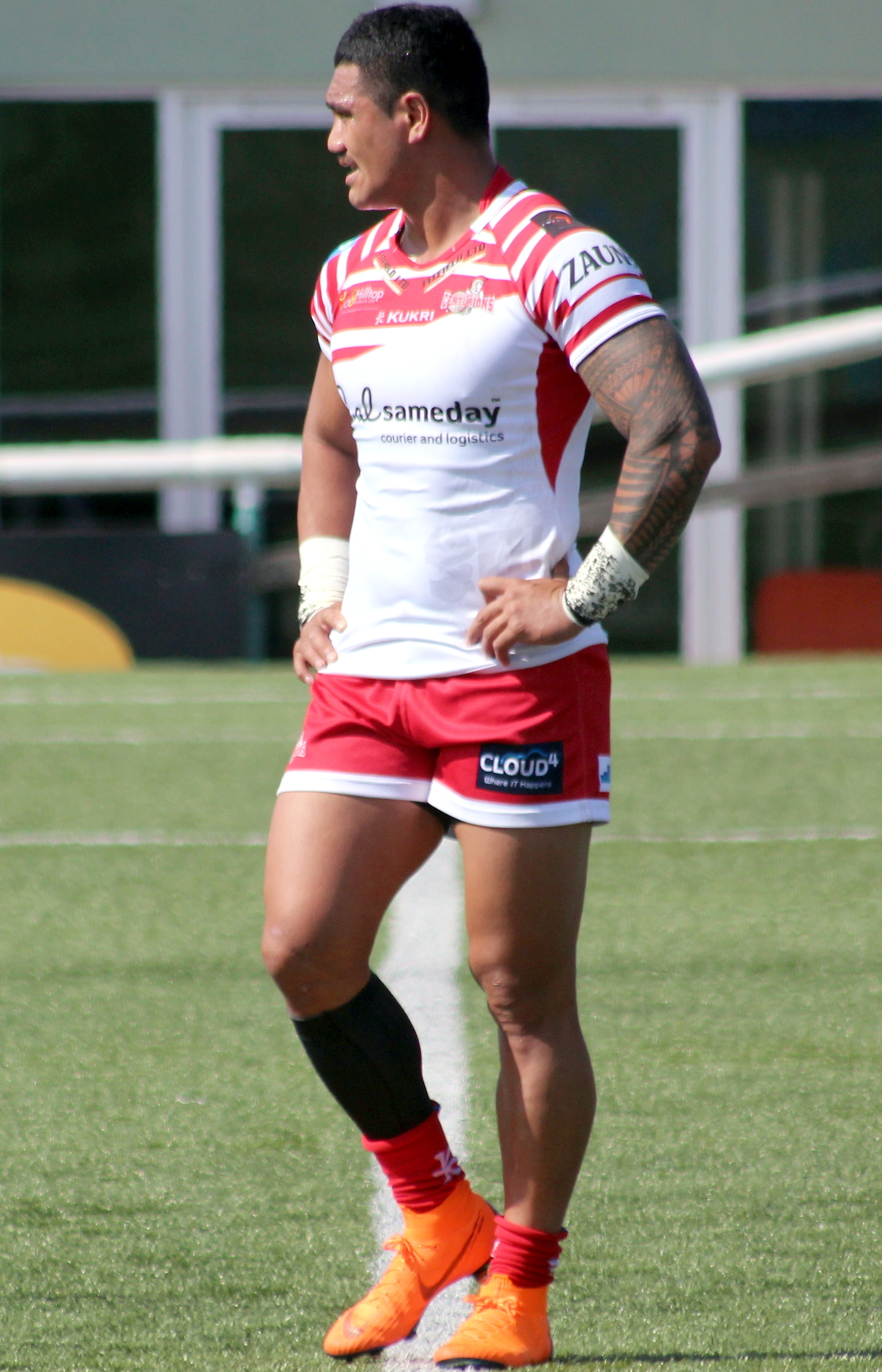 Peter Mata'utia